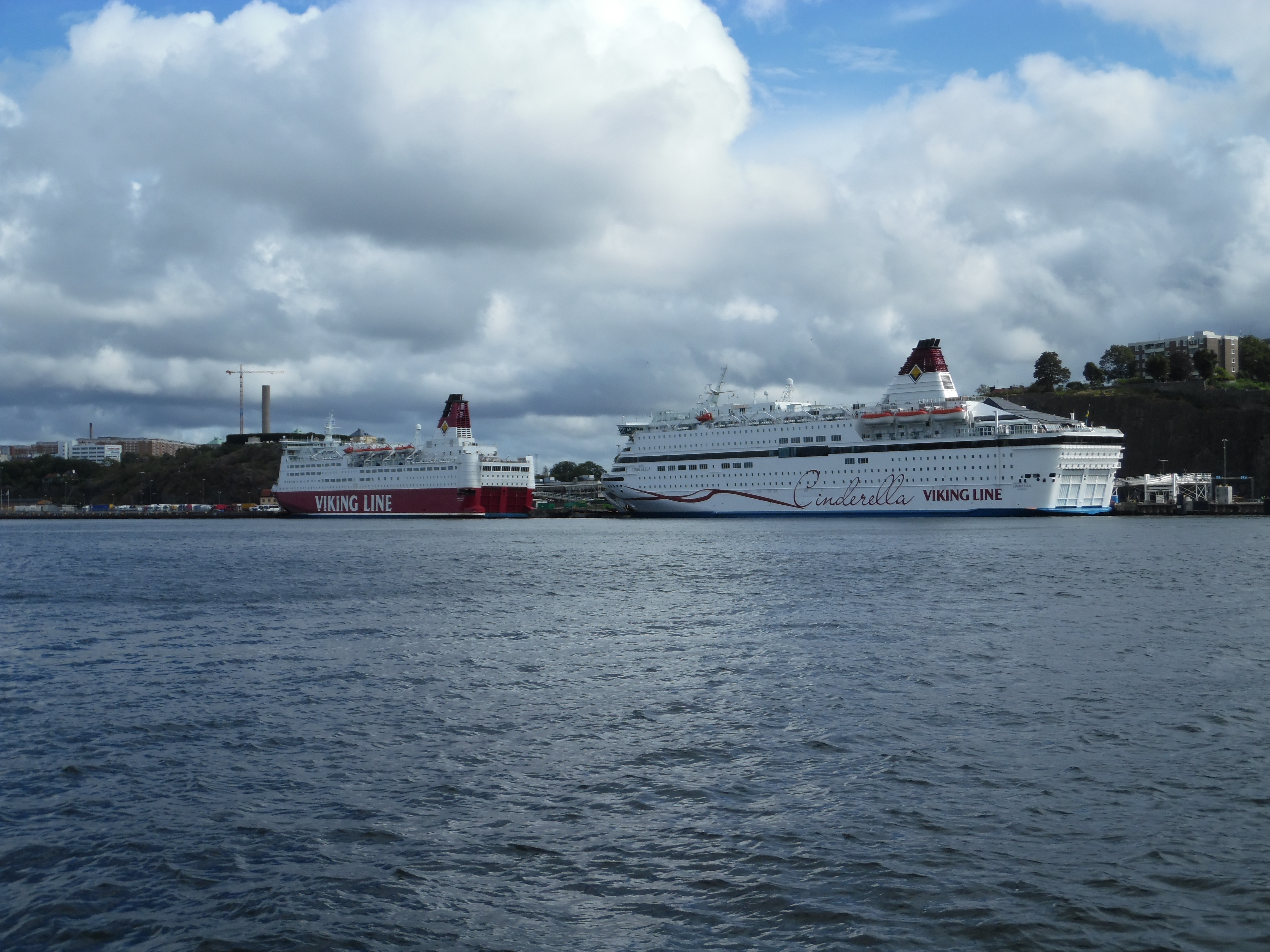 Mariella and Cinderella at Stockholm